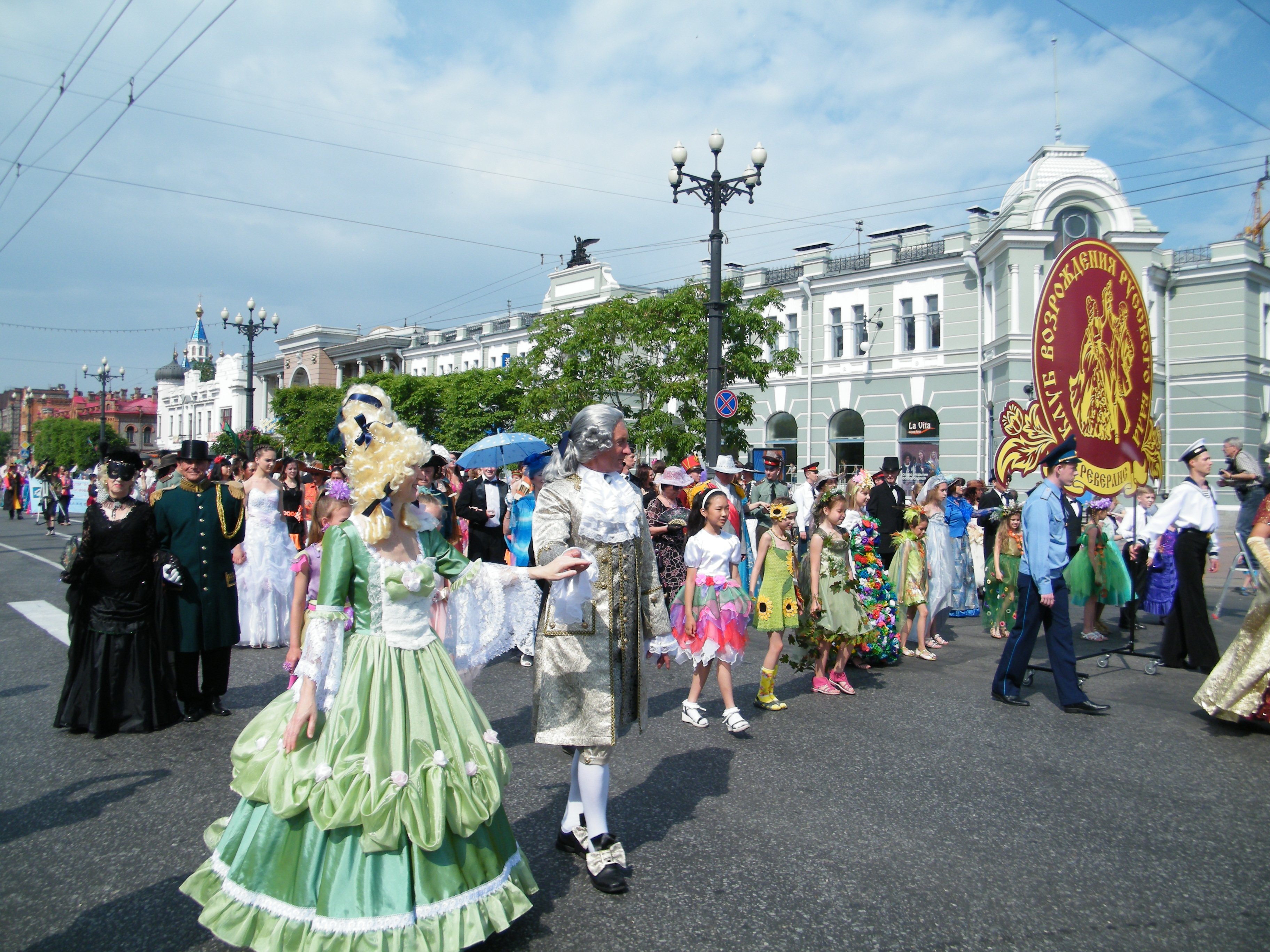 Хабаровску - 154 года